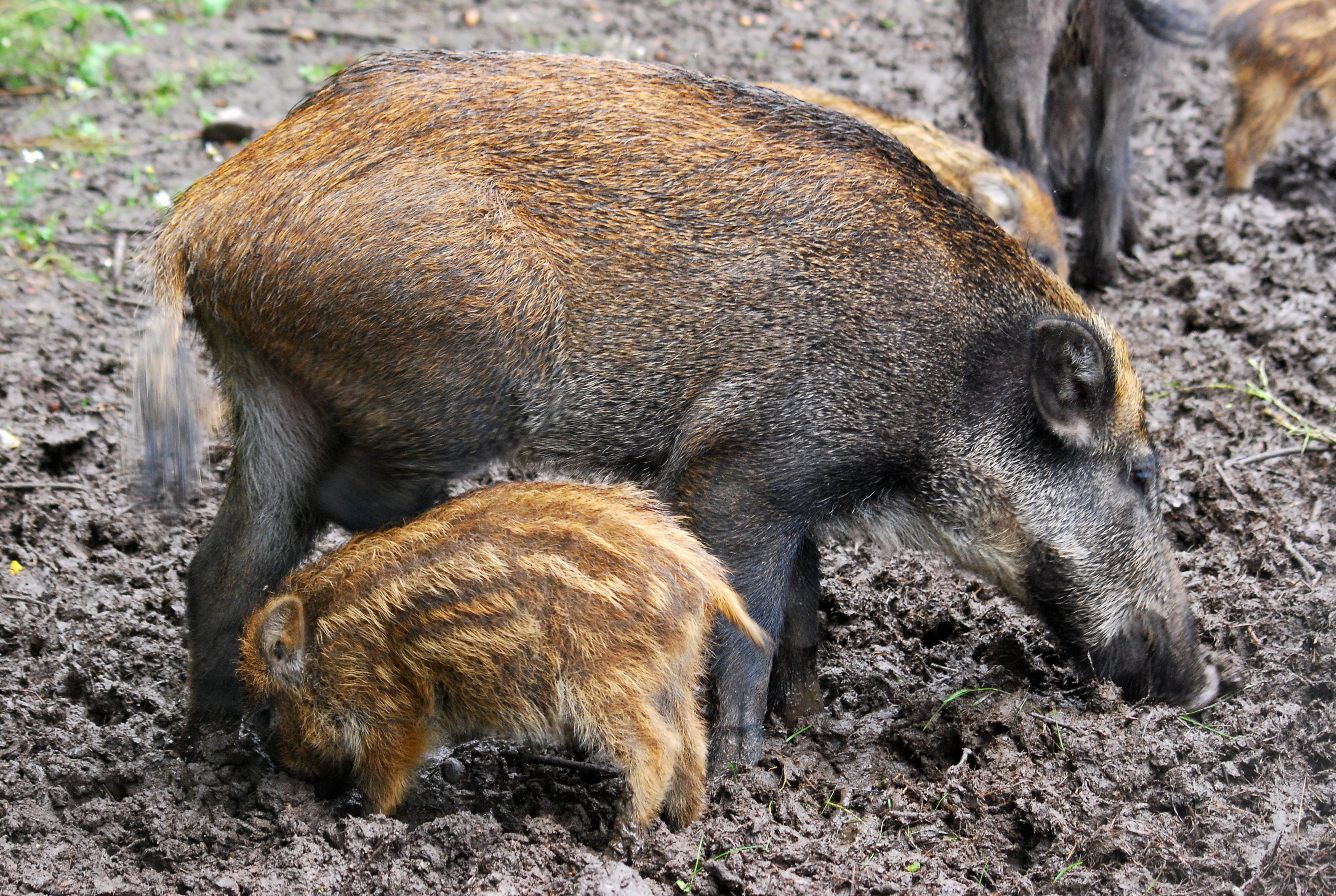 This photo from Podlaskie Voievodeship was taken during Polish Wikiexpedition 2009 set up by Wikimedia Polska Association. The making of this document was supported by Wikimedia Polska. Sus scrofa